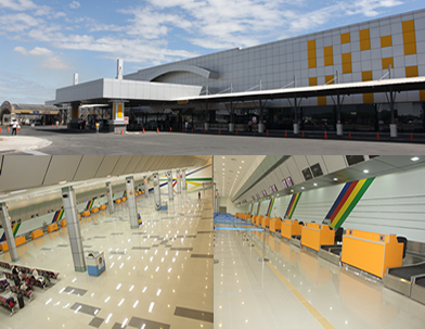 Top: Passenger terminal exterior Bottom left: Passenger terminal departure hall Bottom right: Passenger terminal check-in counters